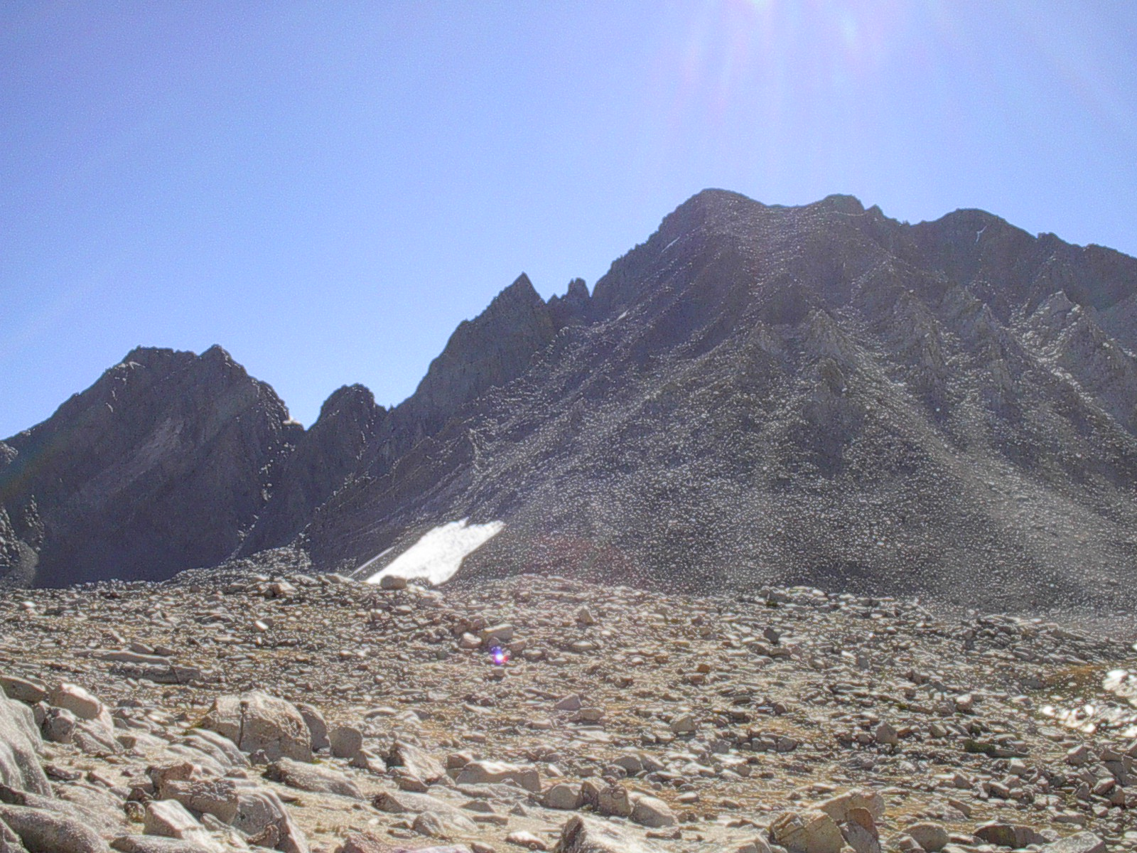 Mount Agassiz, California, August 2007. A view from the west, near Bishop Pass, showing a talus slope and several chutes.